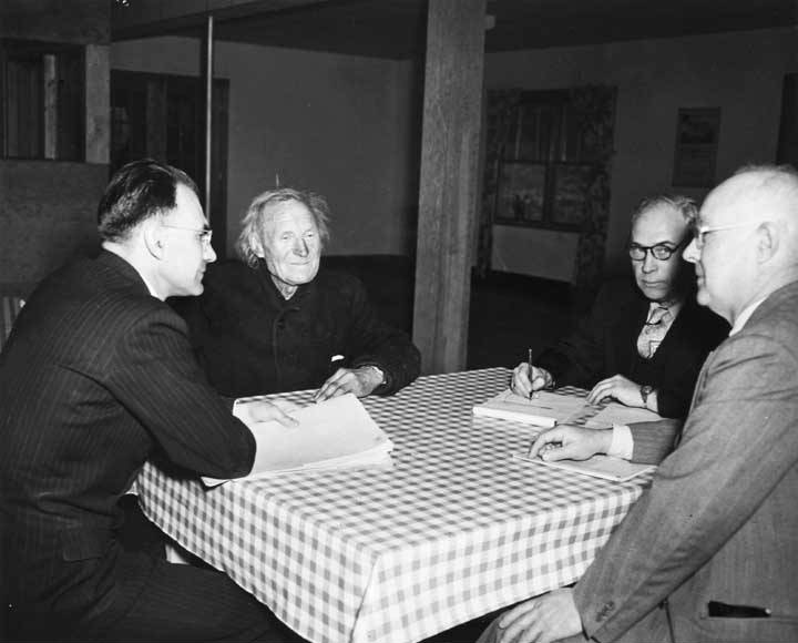 Floating Court aboard the USCGC Northwind